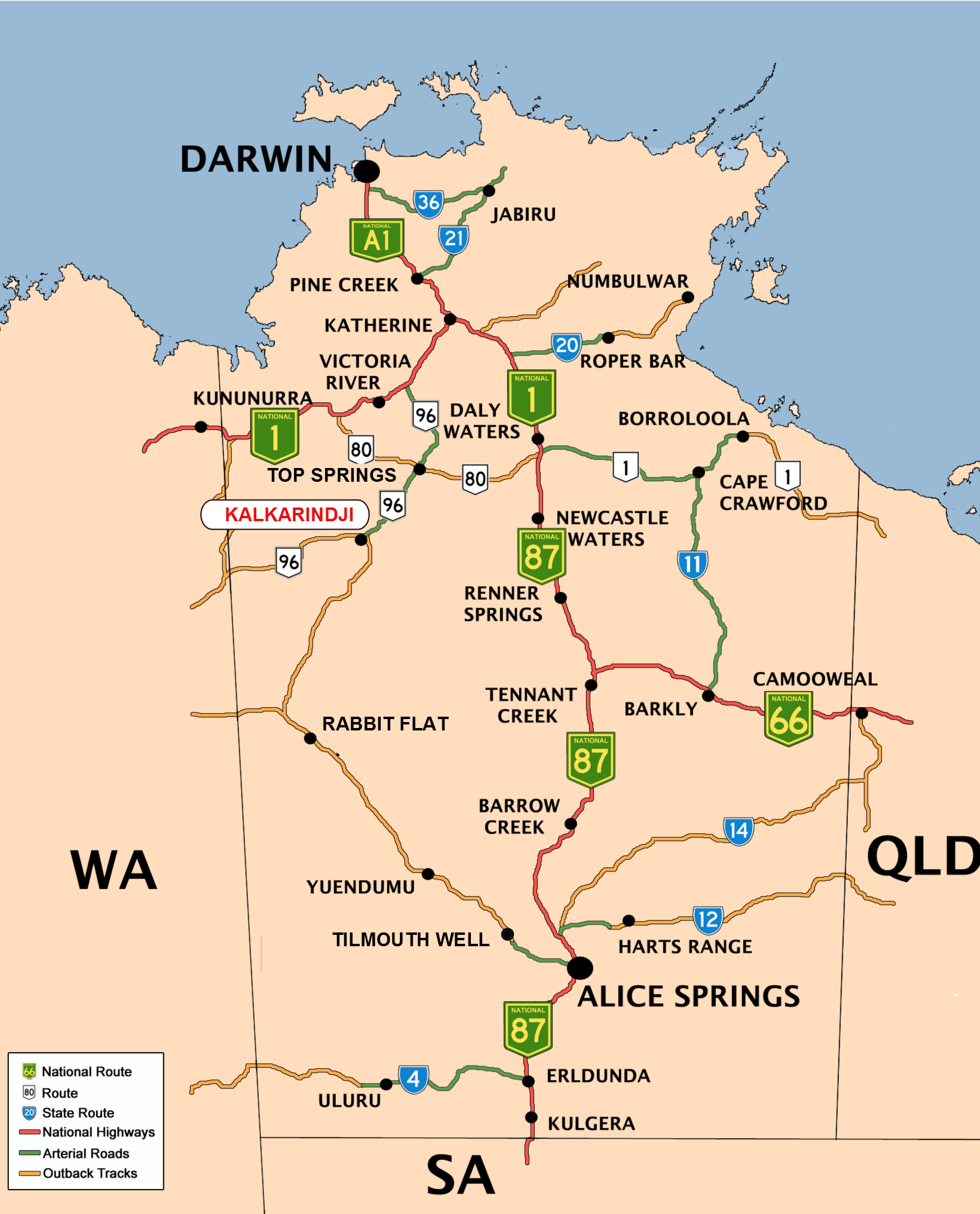 Map of roads in the Northern Territory with Kalkarindji highlighted in red on white. Adapted from a map by Wikipedia User:Fikri. Spelling of Top Springs corrected & Tilmouth Well inserted